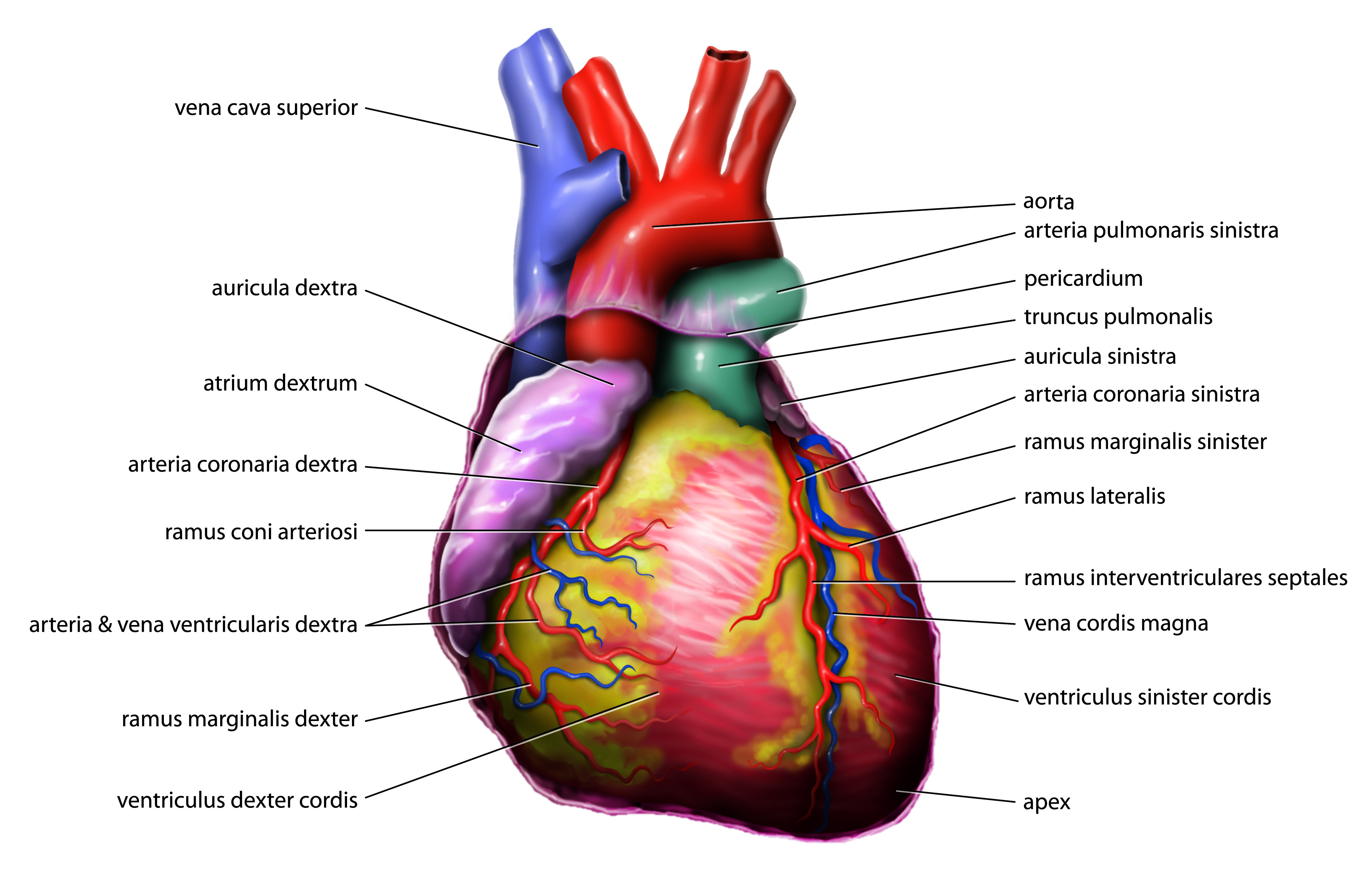 Anatomy of the Human Heart